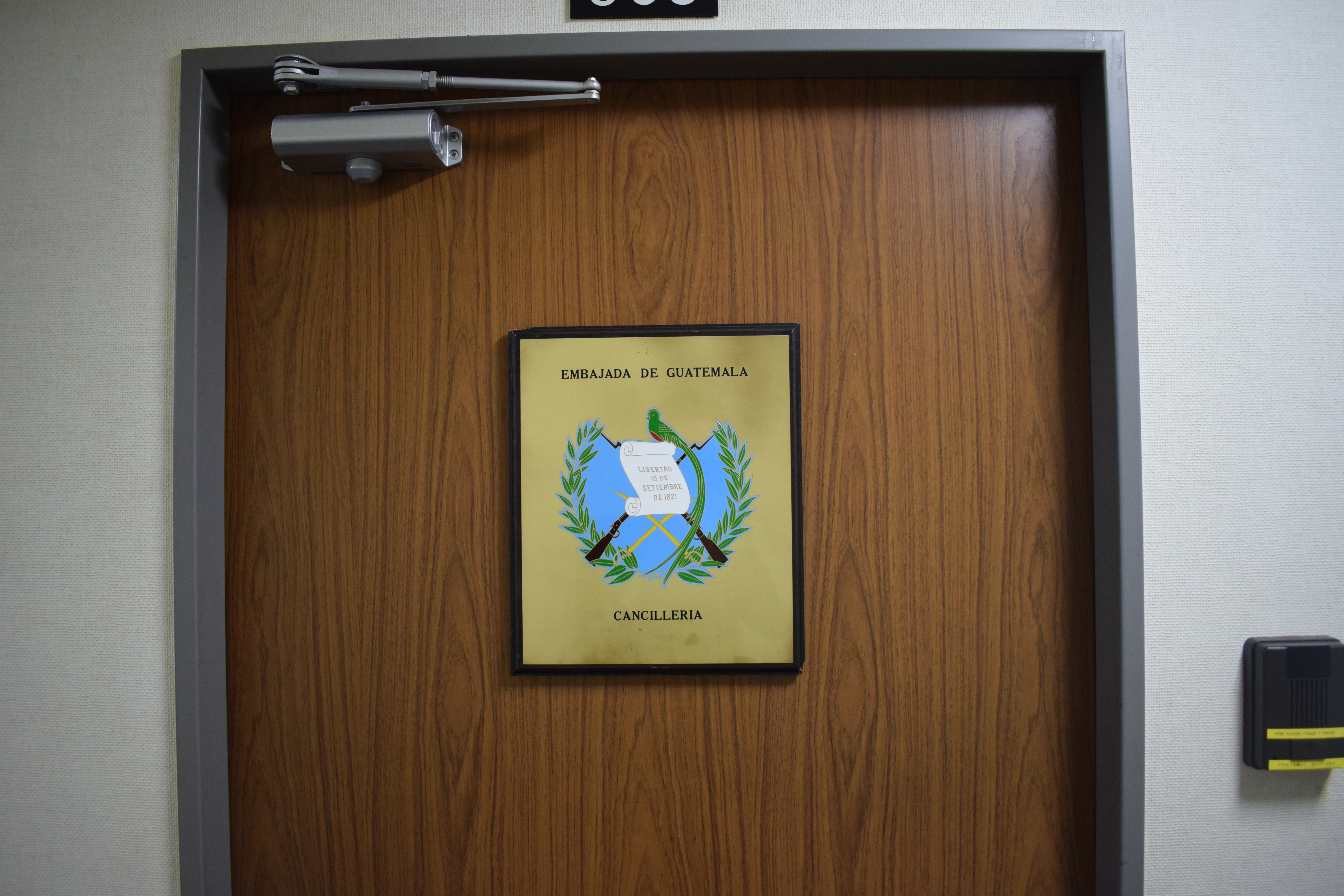 Plaque of the Embassy of Guatemala, which resides in No.38 Kowa Building in Tokyo, Japan